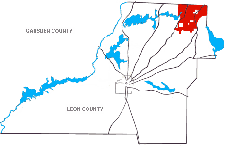 Map of Sunny Hill Plantation, made using sketches from a map in Clifton Paisley's From Cotton To Quail